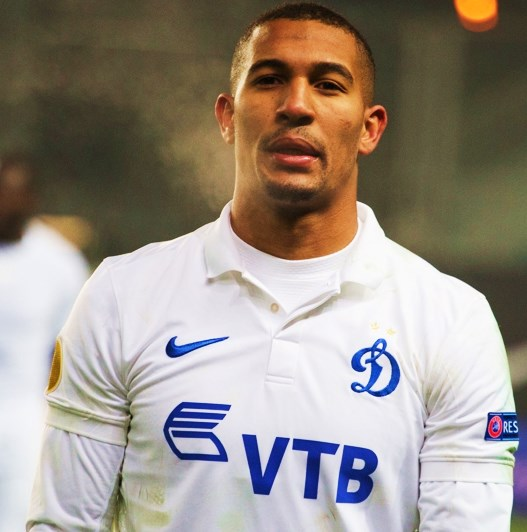 William Vainqueur